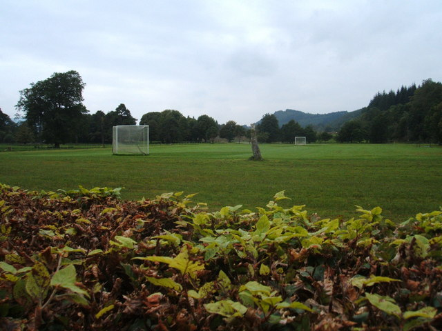 Shinty field and Standing Stone In the grounds of Inveraray Castle